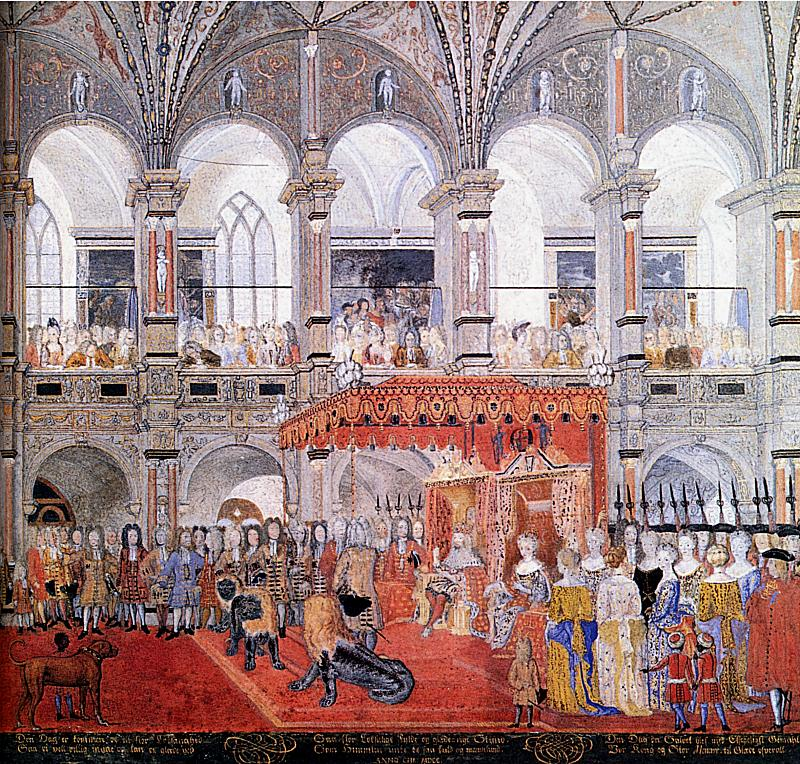 The coronation of Frederick IV and Queen Louise of Denmark in 1700 (coloured drawing from from Tronhilmebogen s. 61)